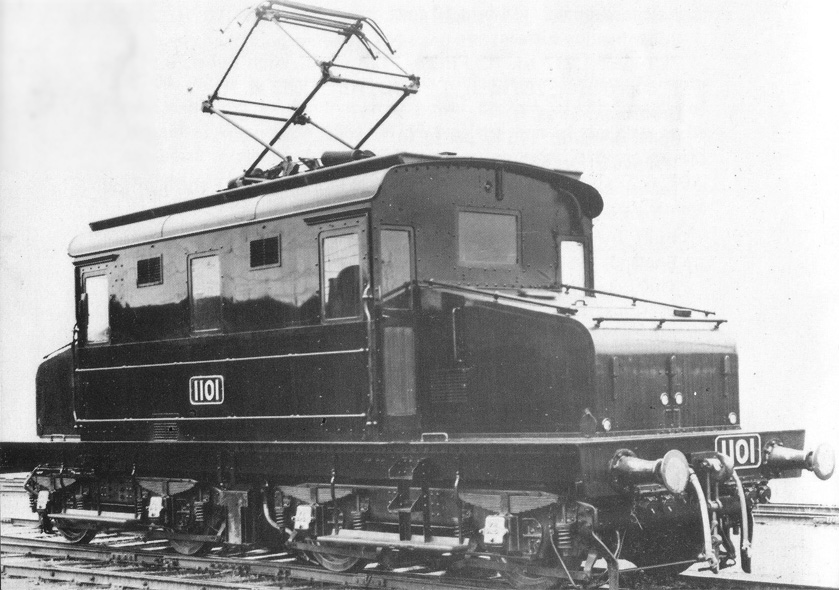 Official publicity photograph Victorian Railways E class (electric) locomotive No. 1101, as built, c.1923. - Zzrbiker (talk) 12:08, 7 September 2008 (UTC)